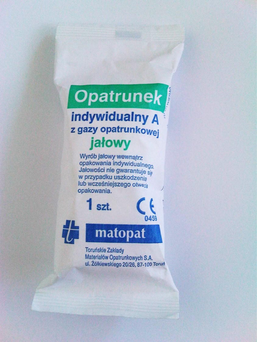 Individual dressing of A type - packaging